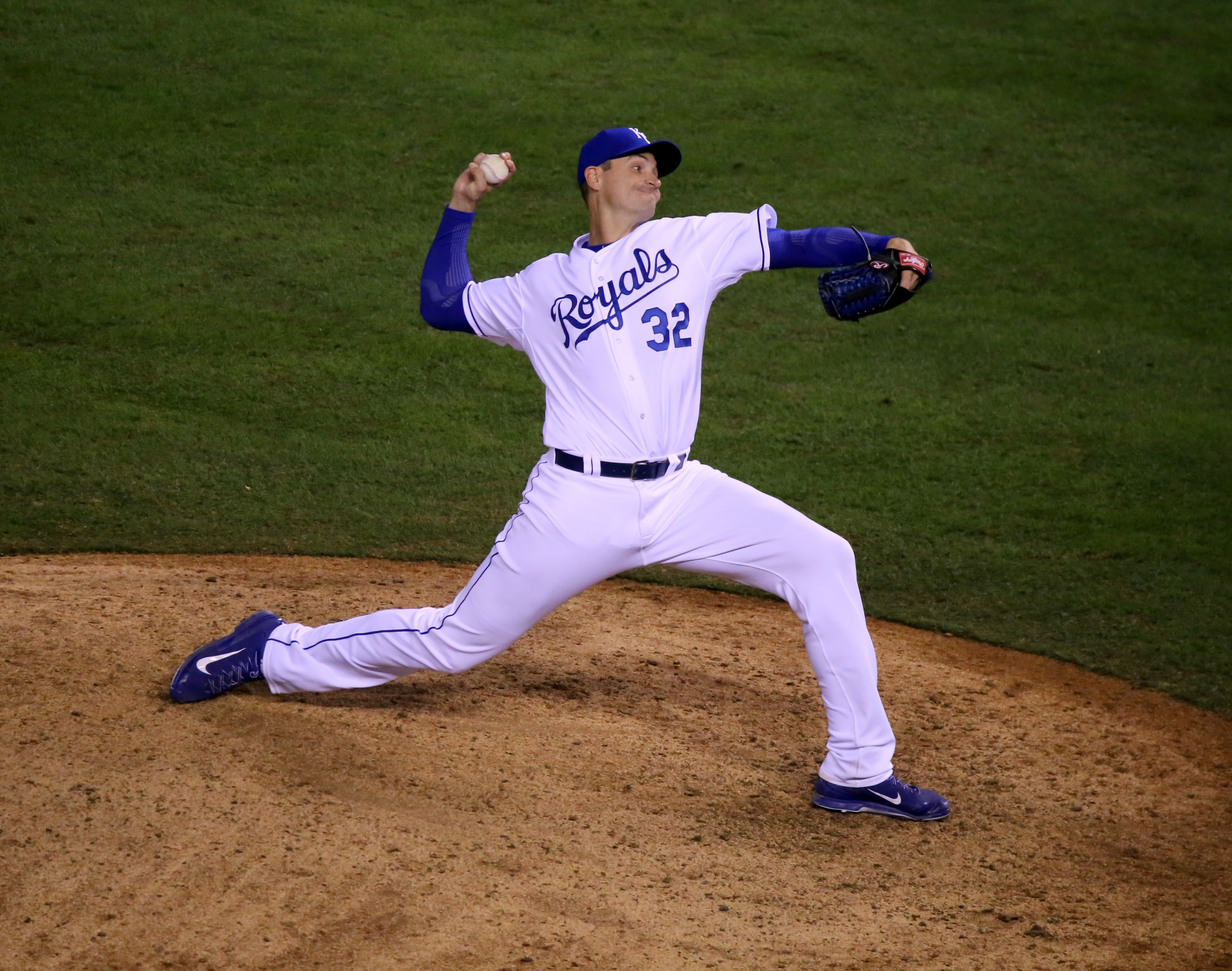 Chris Young delivers a pitch during #WorldSeries Game 1.